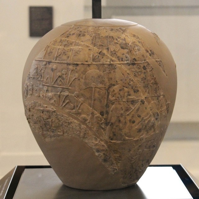 Mace-head of King Scorpion. Ceremonial mace-heads are oversized versions of the small stone weapons that were typical grave goods during the Predynastic Period. Their size and decoration suggest that they had ritual significance, rather than a practical function. By about 3100 BC, mace-heads had become symbols of the Egyptian elite. Their surfaces were carved with complex imagery associated with the foundation of the Egyptian state, particularly the new institution of kingship. The scenes on the surviving fragments of this mace-head depict King Scorpion (named after the scorpion symbol to the right of his face) performing the ceremonial opening of an irrigation canal. Attended by fan-bearers, the king wears the White Crown of Upper Egypt and a ceremonial bull's tail. Standing before him, a man holding a basket, and another carrying a broom, wait to collect the earth removed by the king's hoe. King Scorpion may have been the immediate predecessor of King Narmer. He would therefore belong to the group of rulers preceding the kings of the historic 1st Dynasty. From the 'Main Deposit', Hierakonpolis, Late Predynastic - Early Dynastic (about 3100-3000 BC). Egyptian Research Account excavations. (Ashmolean)